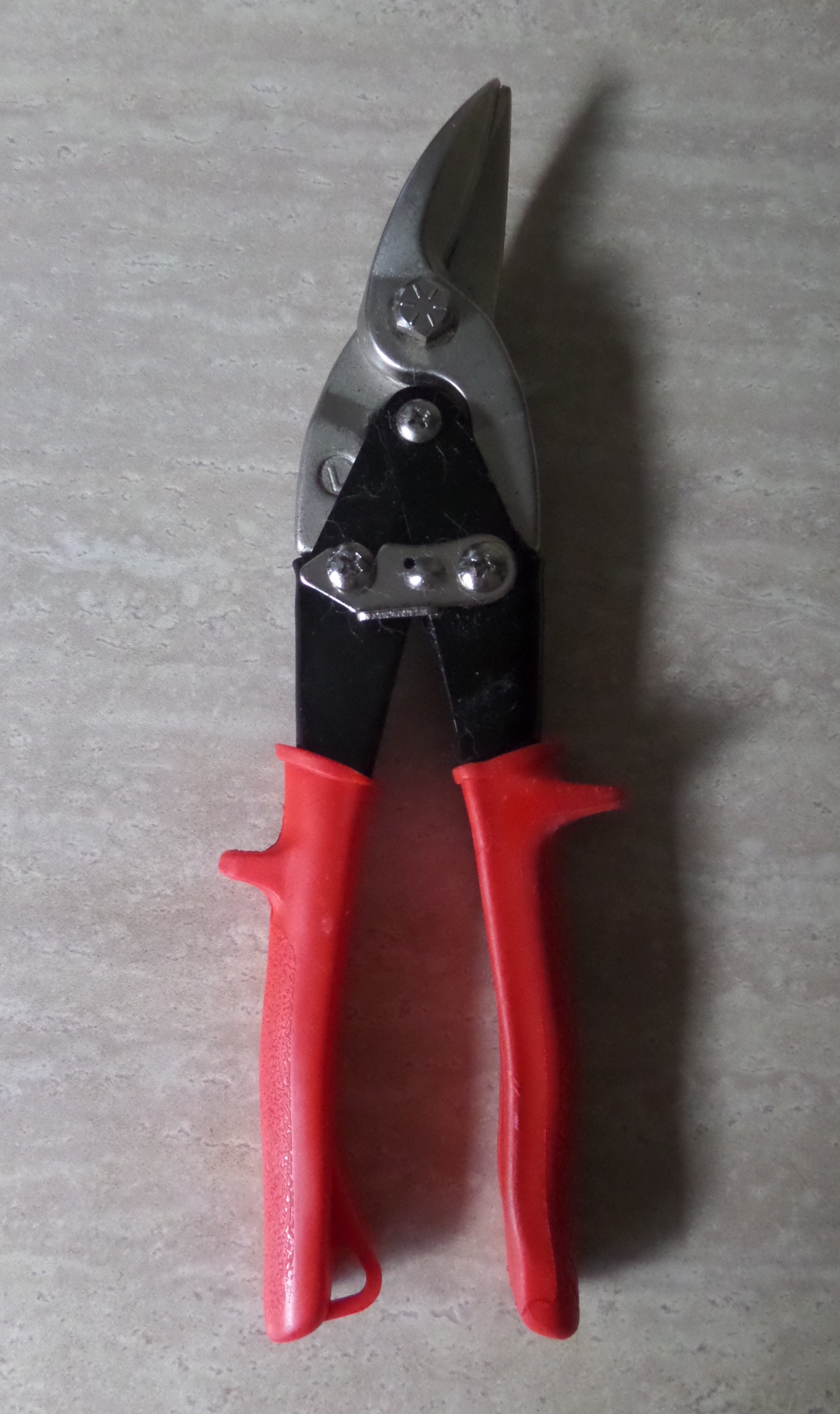 Tin snips with red handle